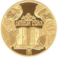 Coin of Ukraine